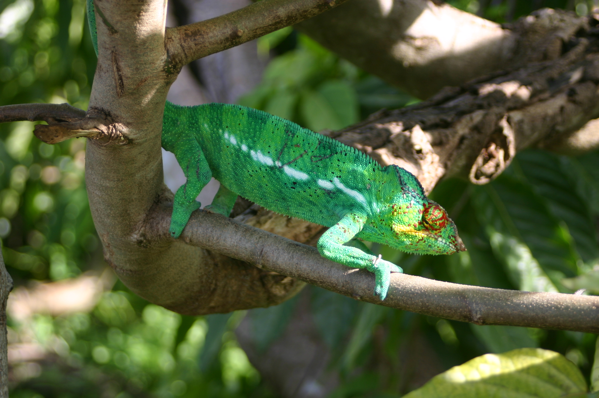 Female Chameleon. The image was taken in Madagascar by Brocken Inaglory